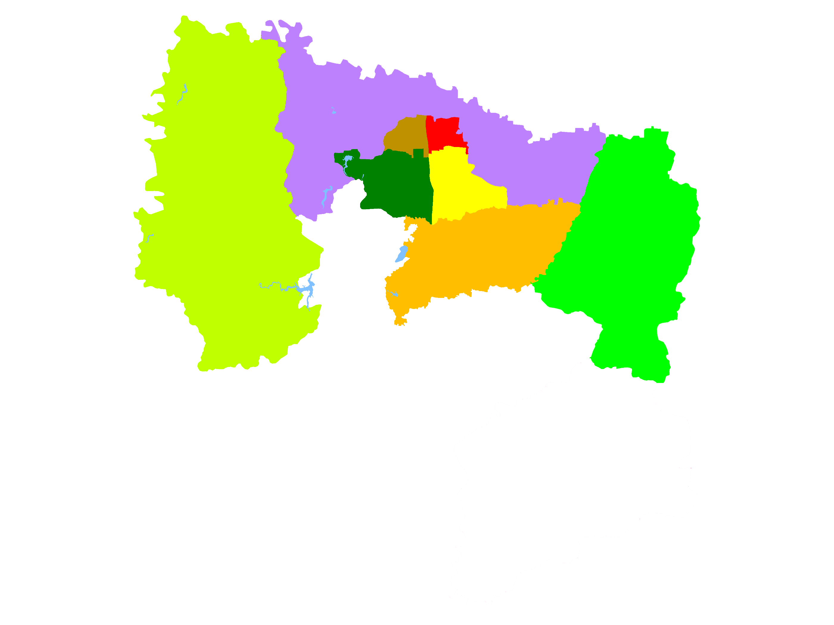 Administrative divisions of Anyang city in Henan province, China, since 2014